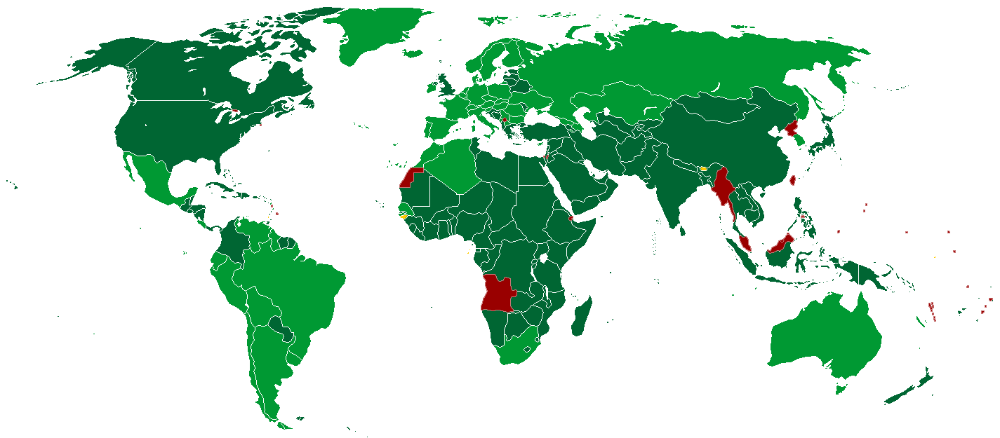 A map of signatories to the Convention on the Elimination of All Forms of Racial Discrimination, as compiled by the UN. Based on BlankMap-World.png made by Vardion. Coloured by IdiotSavant